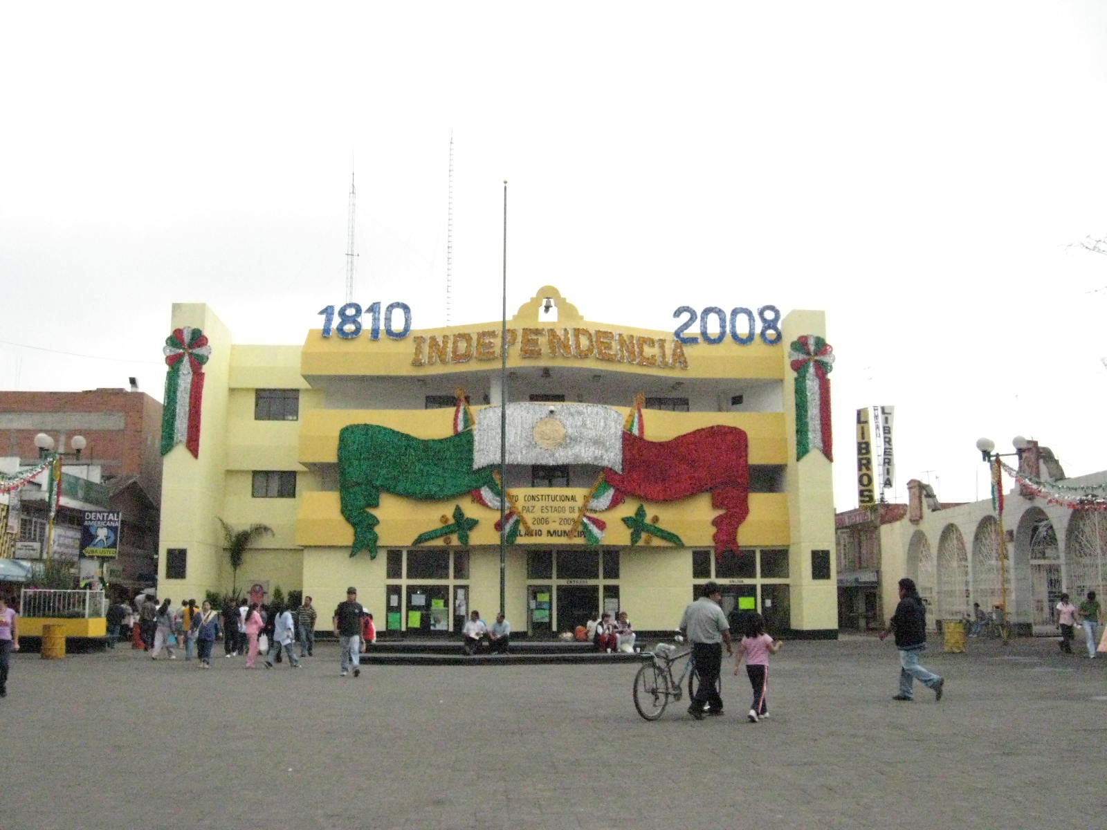 The "Palacio Municipal" (main government building) for the city and municipality of Los Reyes/La Paz located just south of the Metro Los Reyes station on Hombres Ilustres Street in Los Reyes Acaquilpan, State of Mexico, Mexico